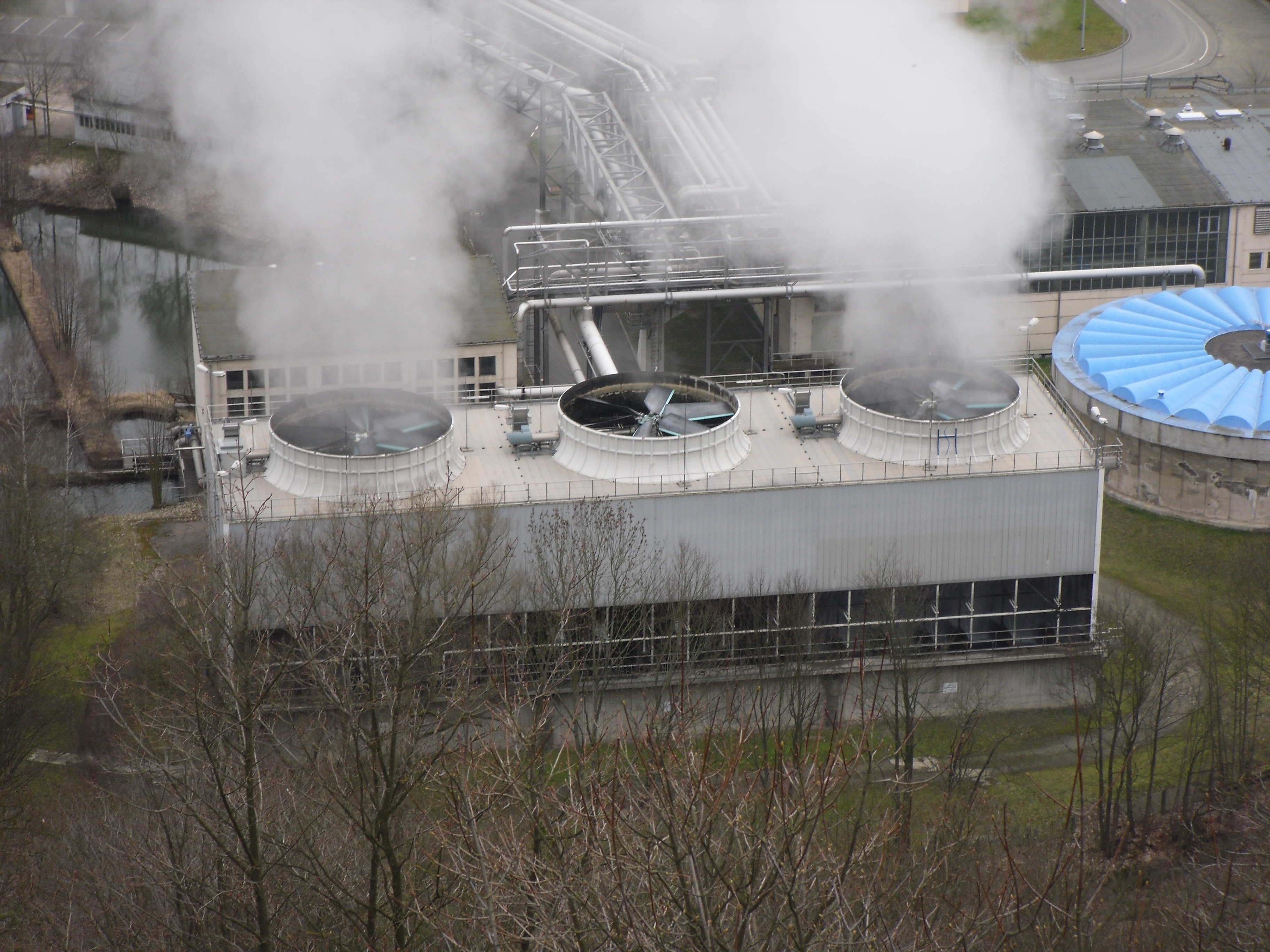 Cellcooler of the Lyeboiler from the ZPR